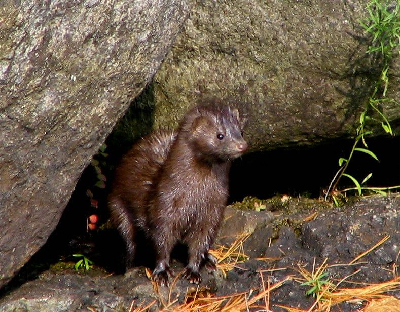 A mink on Lower Saranac Lake. Taken by Mwanner, 18 October, 2007.